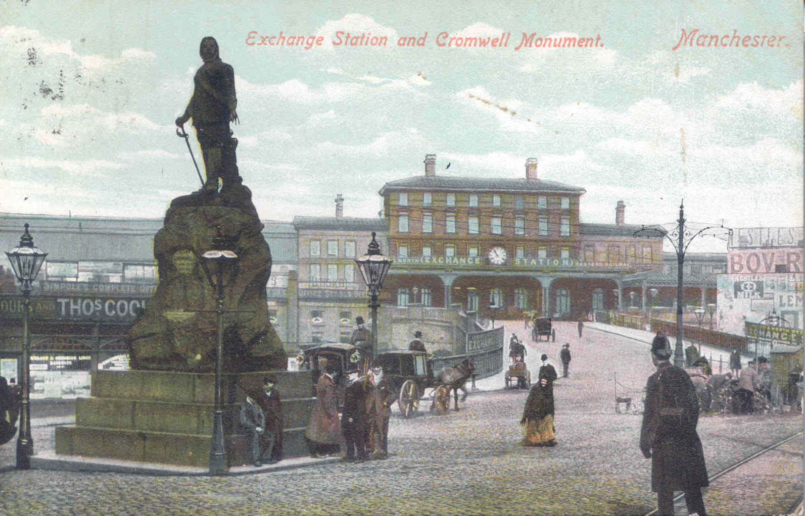 The Thomas Cook building for the landing stages at Manchester Cathedral